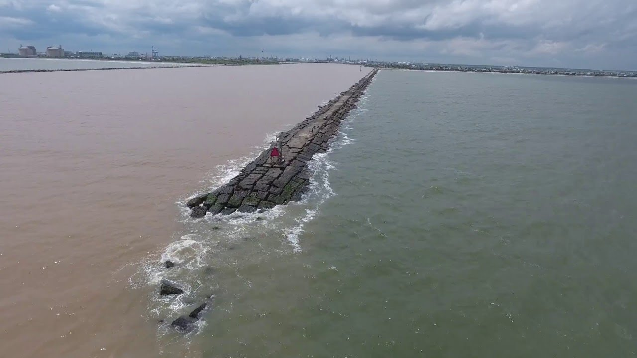 Outer most extent of Vykruta Surfside Jetty Trail, zoom in to see small light house.